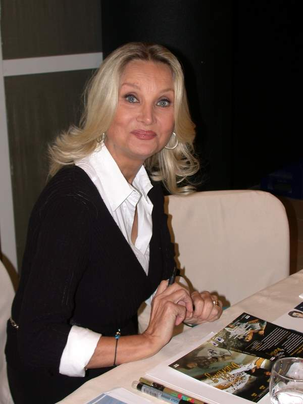 Actress Barbara Bouchet at the Sonopromotion film fair, November 5th 2006, Kerkrade, The Netherlands